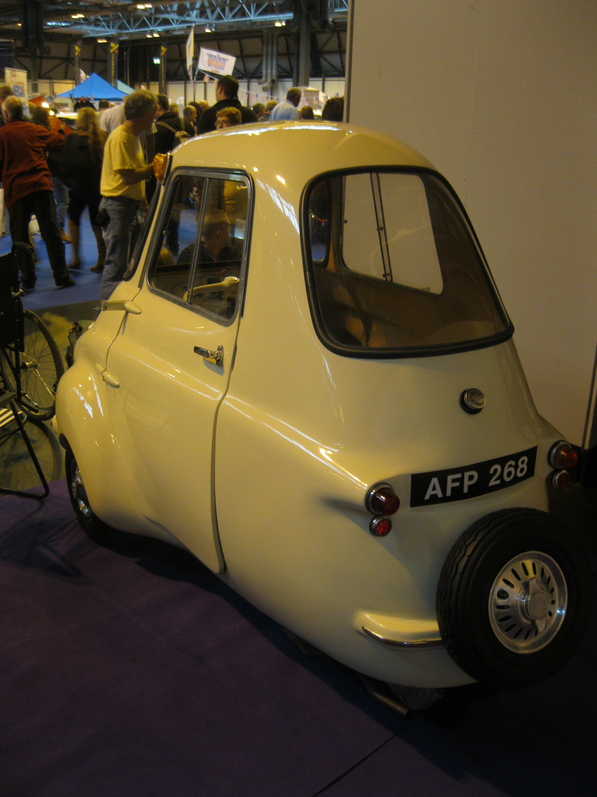 Built between late 1950s and early 1960s. Exhibited at the NEC Birmingham Classic Car Show, November 15-17, 2013